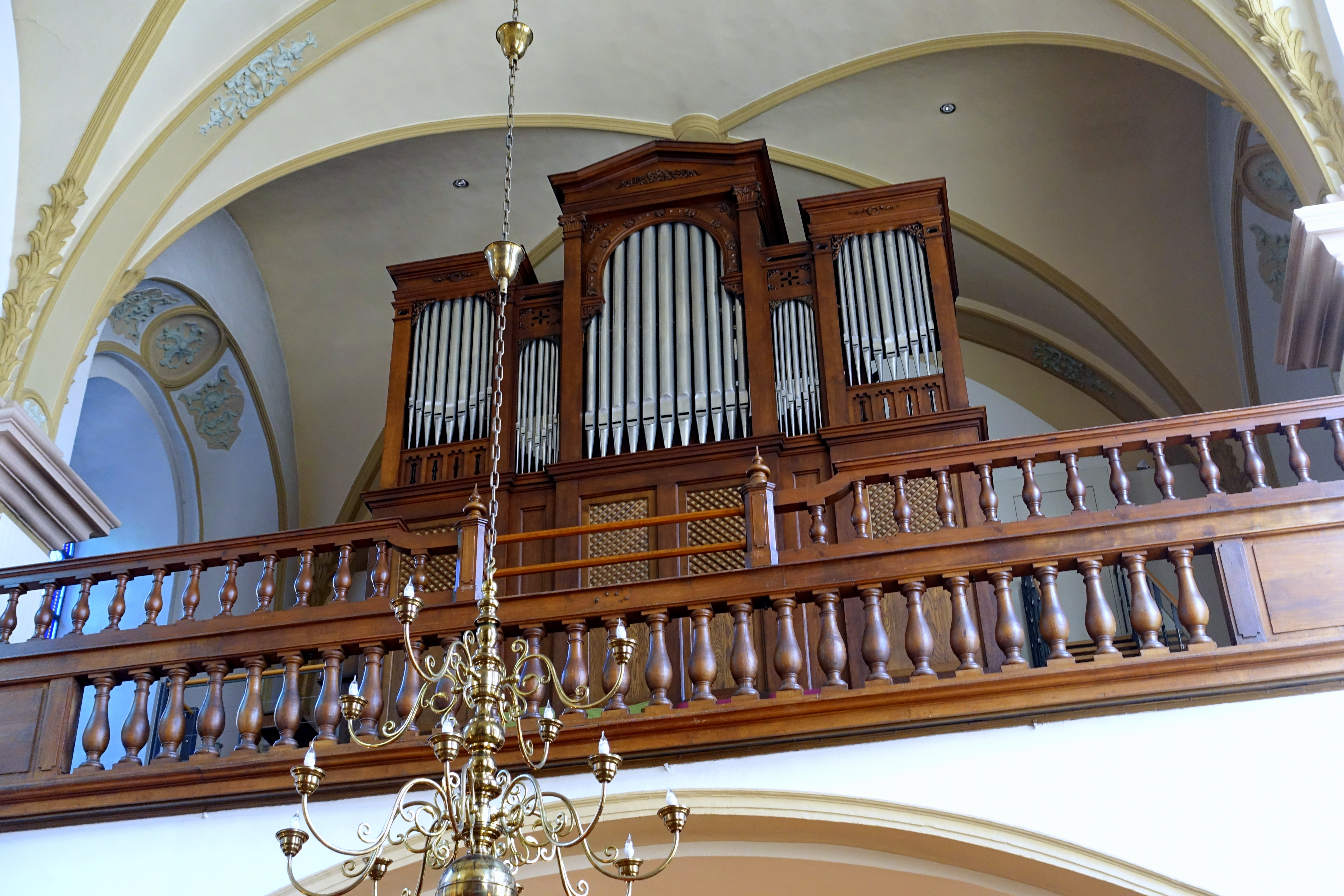 Interior of the Dreifaltigkeitskirche (Eglise de la Trinité) - Luxembourg City, Luxembourg.